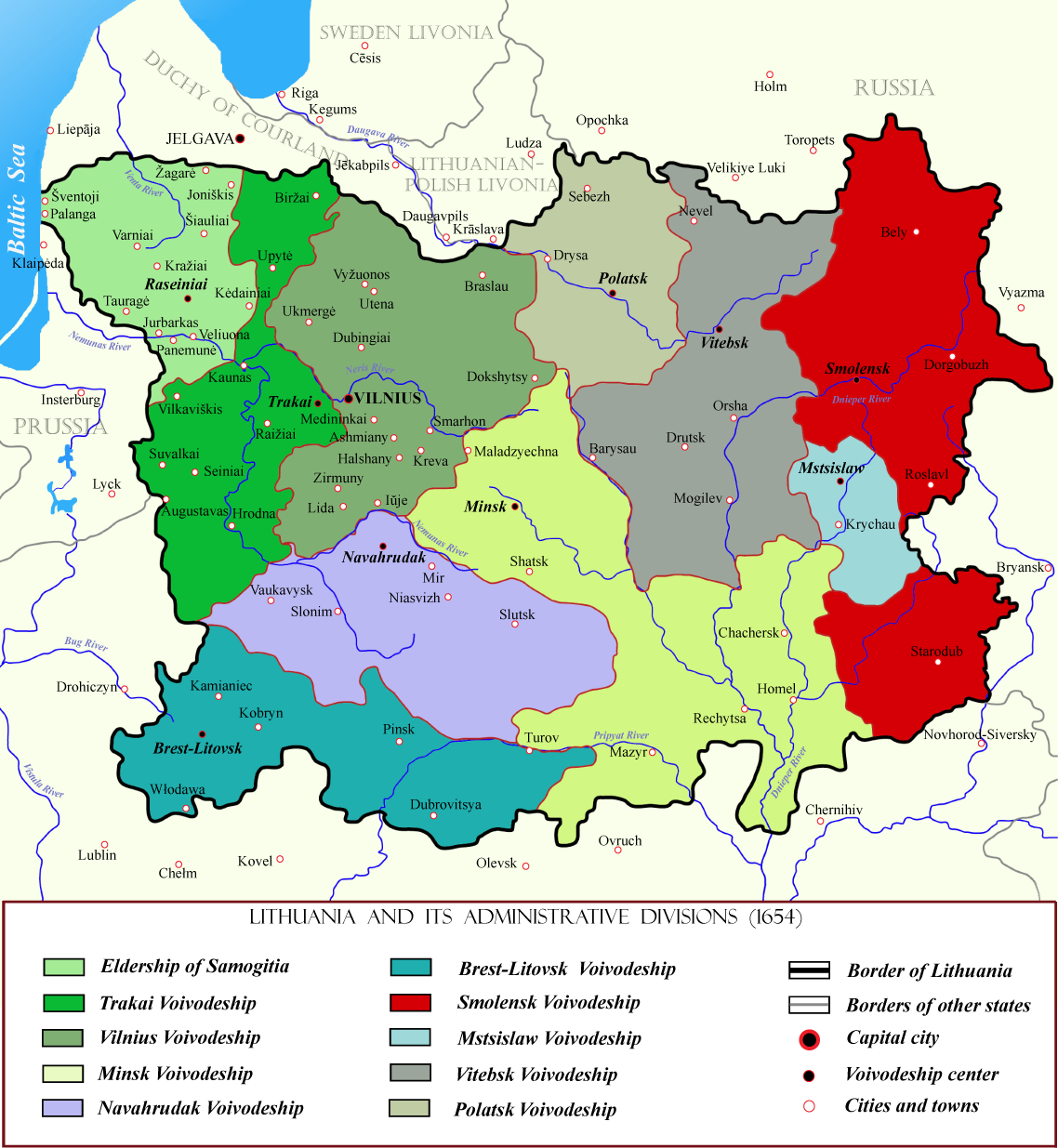 Smolensk Voivodeship (red) within Lithuania in the 17th century